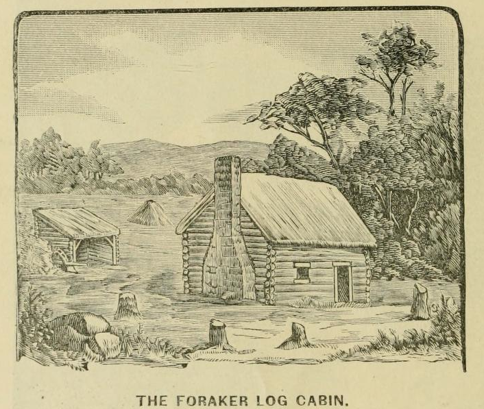 The log cabin, in which Joseph Foraker was born, if you believe his campaign publication, from which this is taken. His biographer, Everett Walters noted a discrepancy, as, he said, Foraker was actually born in a comfortable 2 story residence. Being born in a log cabin (note the stumps outside) was taken as an indication of being a common man in the 1800s.